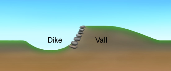 Cross section of a ditched fence (Sw. "gropavall"). The ditched fence is an old type of agricultural fence typical for some parts of Sweden, from Västergötland to northern Skåne. The ditched fence consist of a ditch and an earth wall, sometimes reinforced by stones. The purpuse of the ditched fence was to prevent cattle to walk into tilled land. Compare the similar ha-ha.